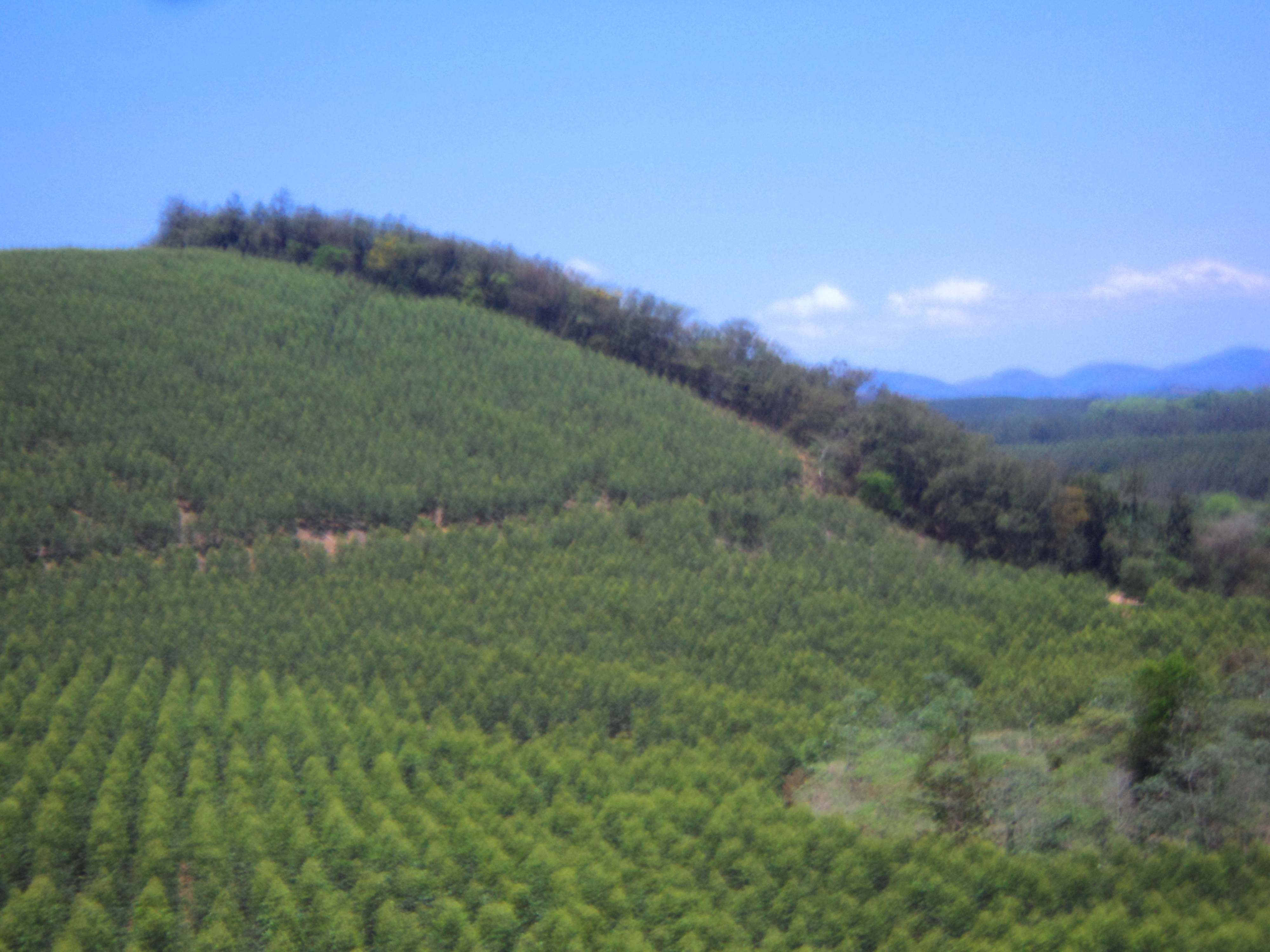 Eucalyptus plantation in Belo Oriente, Minas Gerais, Brazil.